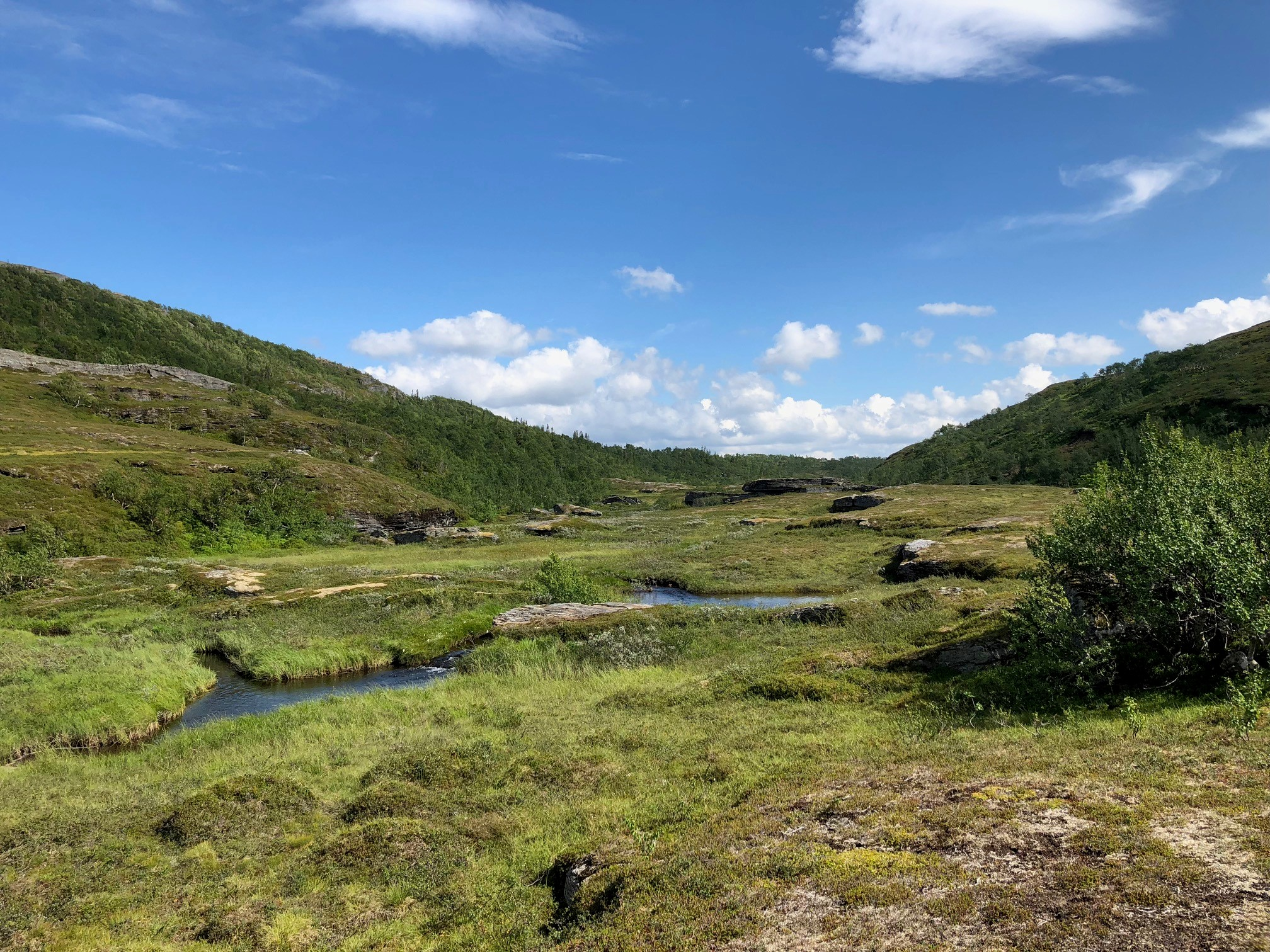 Lierne National Park, Trøndelag, Norway